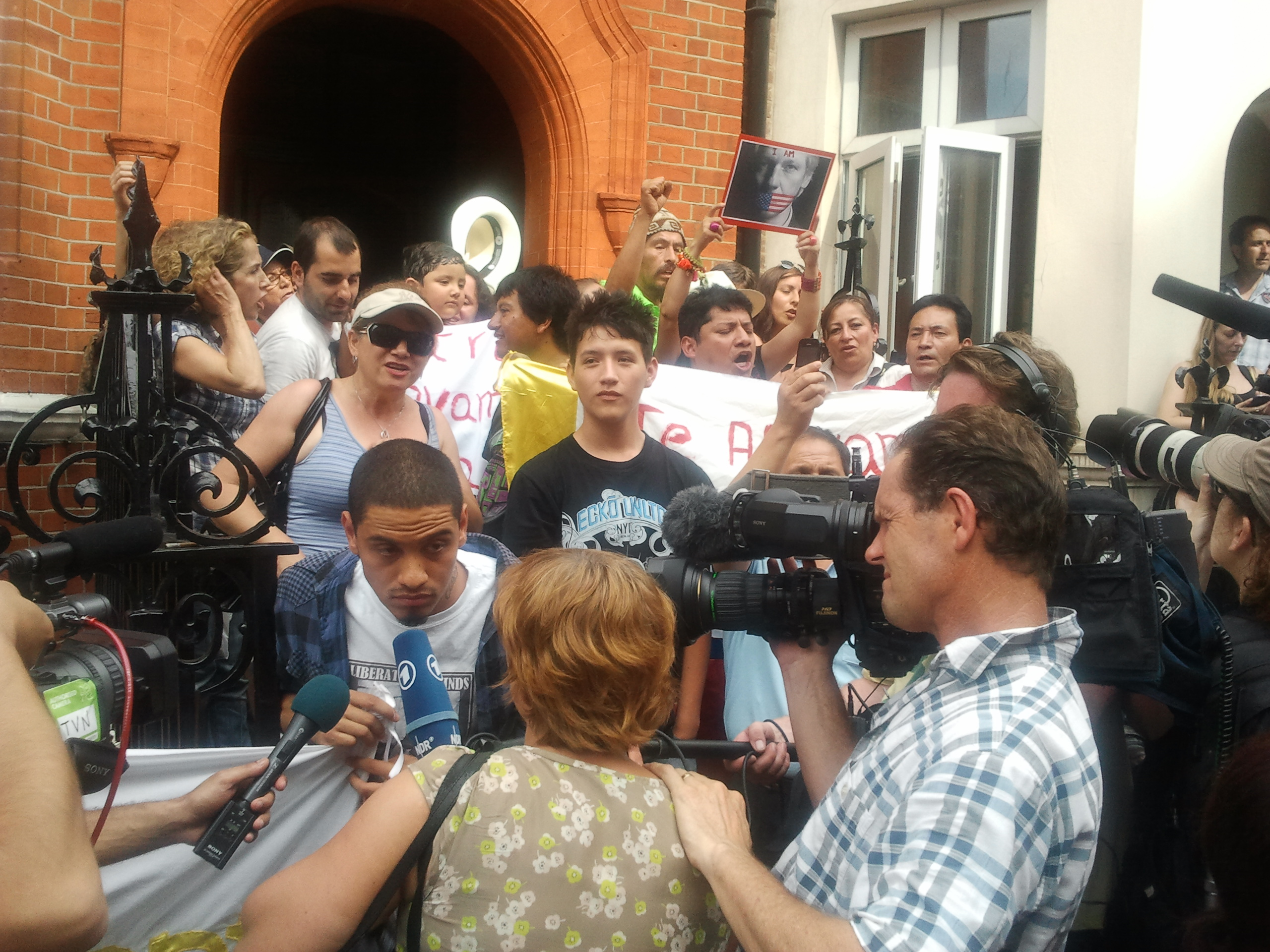 Assange speech-supporters from Ecuador in London